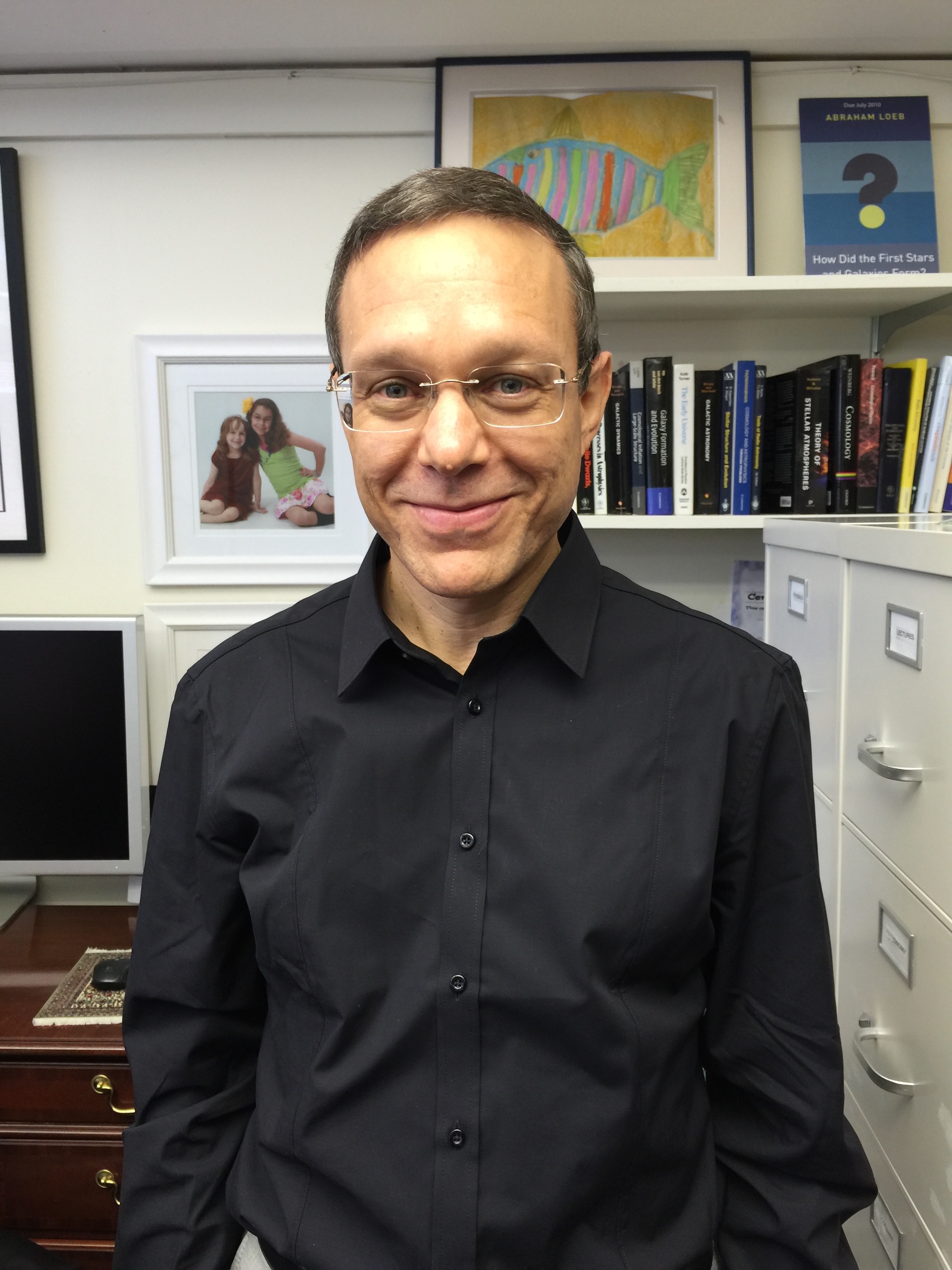 Professor Avi Loeb in his office at Harvard on October 1, 2015